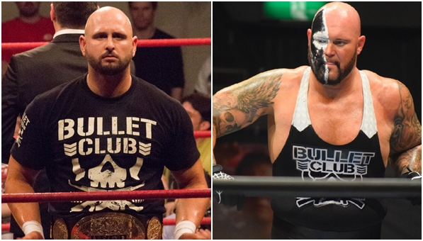 Professional wrestlers Karl Anderson and Luke Gallows.